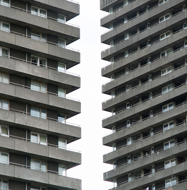 Whitevale and Bluevale flat in Glasgow, Scotland.